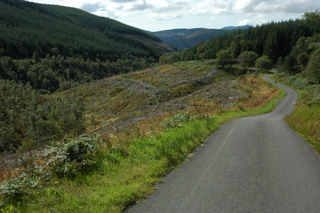 Road in the Dyfi Forest A steep road passing an area of clear fell in the Dyfi Forest.